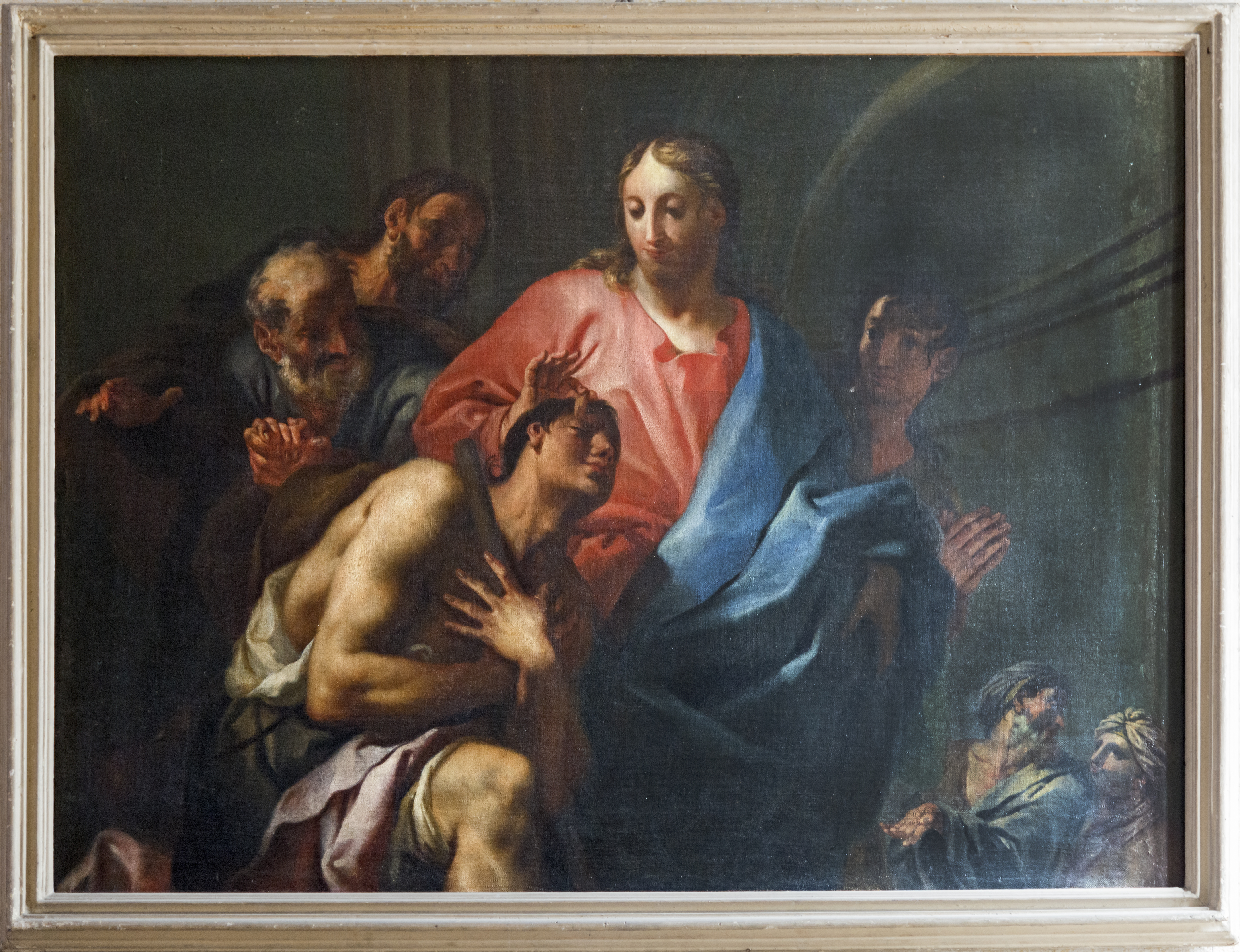 Chapel Badoer-Surian of San Francesco della Vigna (Venice). "The healing of the man born blind" by Angelo Trevisani. Oil on canvas, between 1715 st 1720.